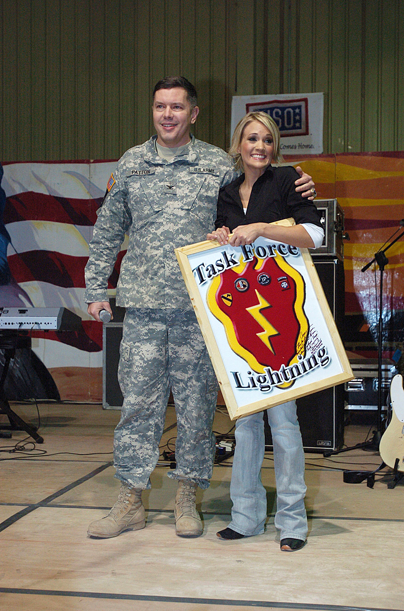 U.S. Army Col. Gary Patton, left, 25th Infantry Division chief of staff, presents country music star Carrie Underwood with a gift for her performance at Contingency Operating Base Speicher, Tikrit, Iraq, Dec. 15, 2006.